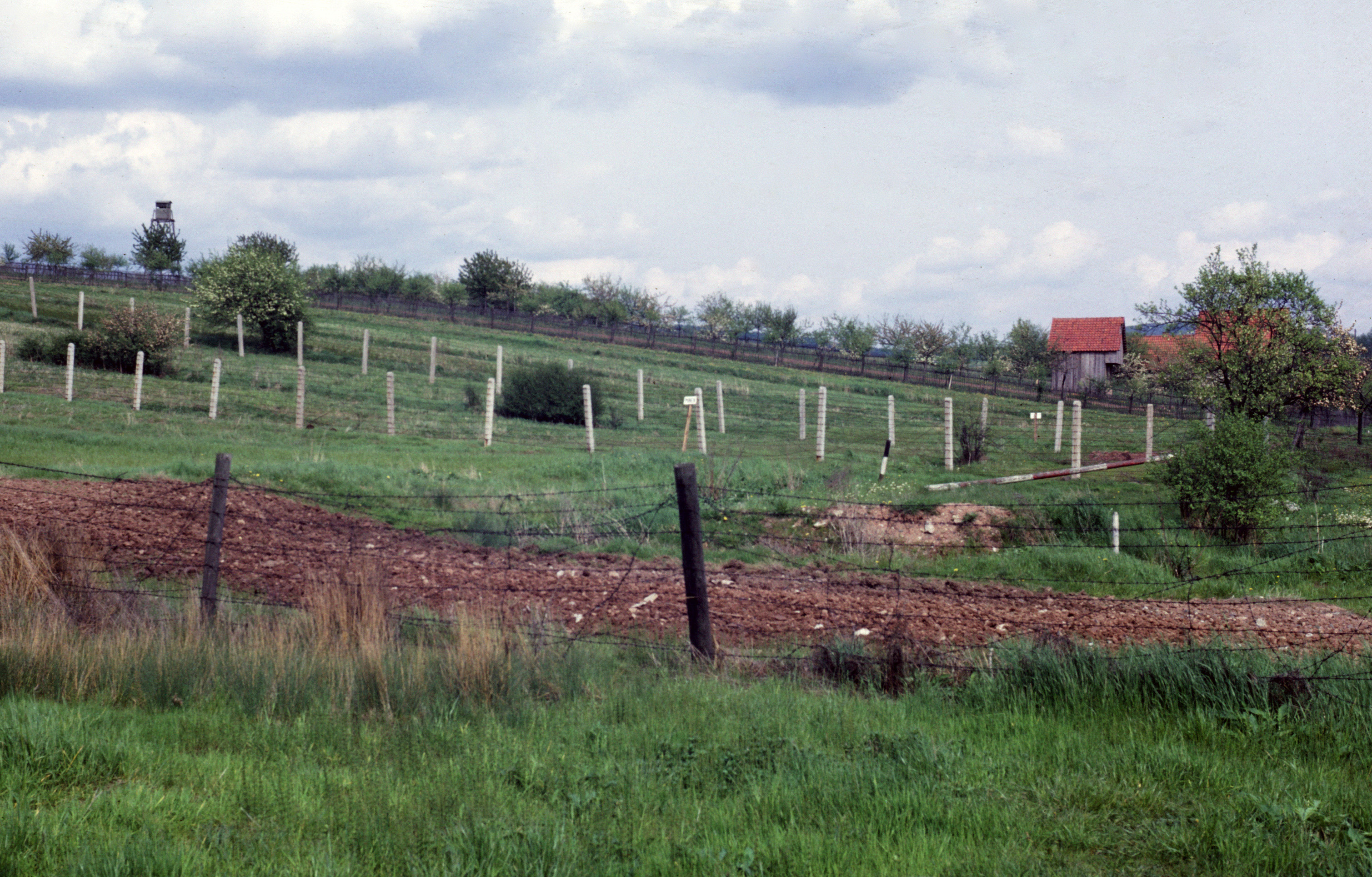 The East German border. (Processed and corrected by ChrisO). Ergänzung: der Kamerastandort könnte sich westlich von Ecklingerode im Eichsfeld befunden haben (rekonstruiert nach Flickr-Bild Nr. 335748513 am gleichen Standort)